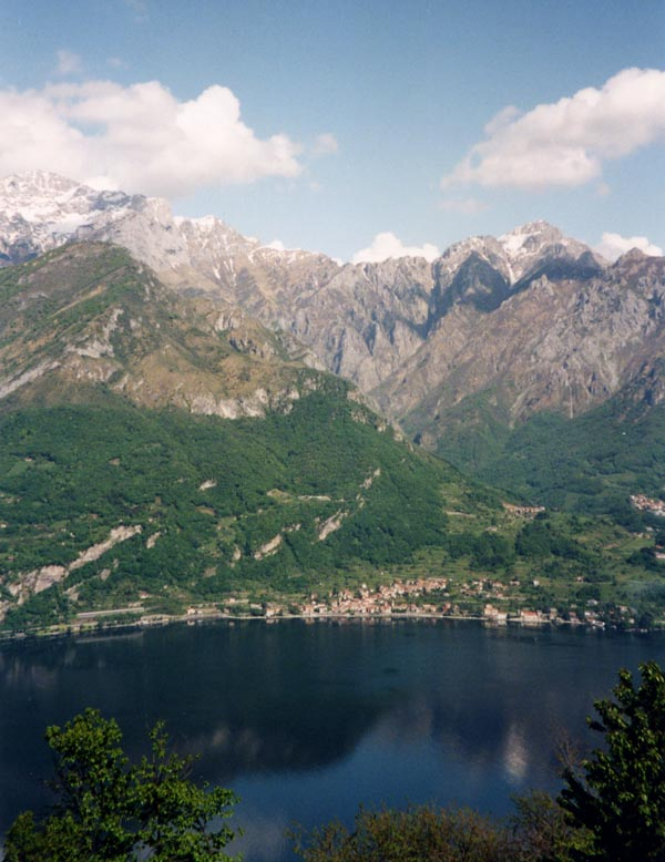 View of Olcio across Lake Como, from near Civenna